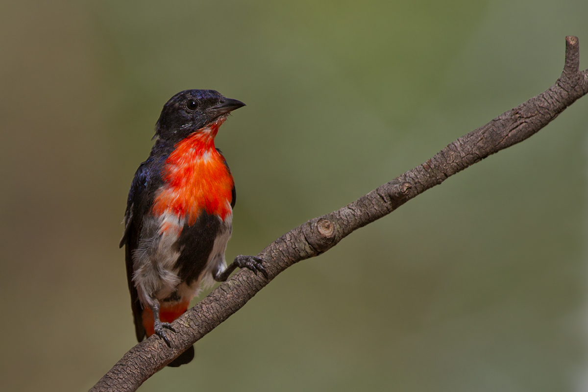 Mistletoebird. Strangways Vic.